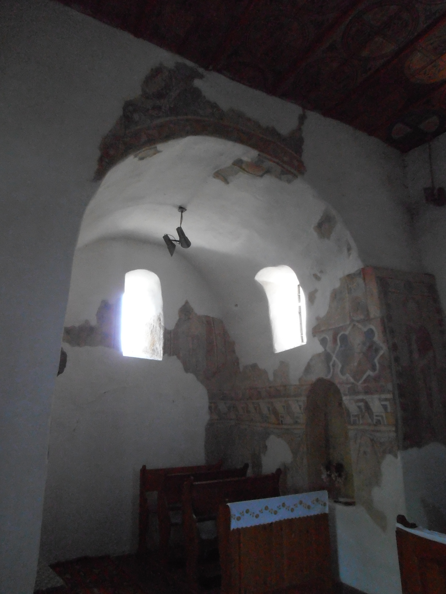 Medieval wall paintings in the reformed church of Rakacaszend, Hungary A rakacaszendi református templom középkori freskói